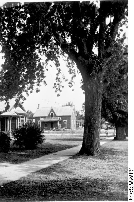 Vereinigte Staaten, Missouri, Strasse in Hamburg Information added by Wikimedia users.Streetside scene in Hamburg, a former community in St. Charles County, Missouri, United States that was evacuated and turned into a US military complex